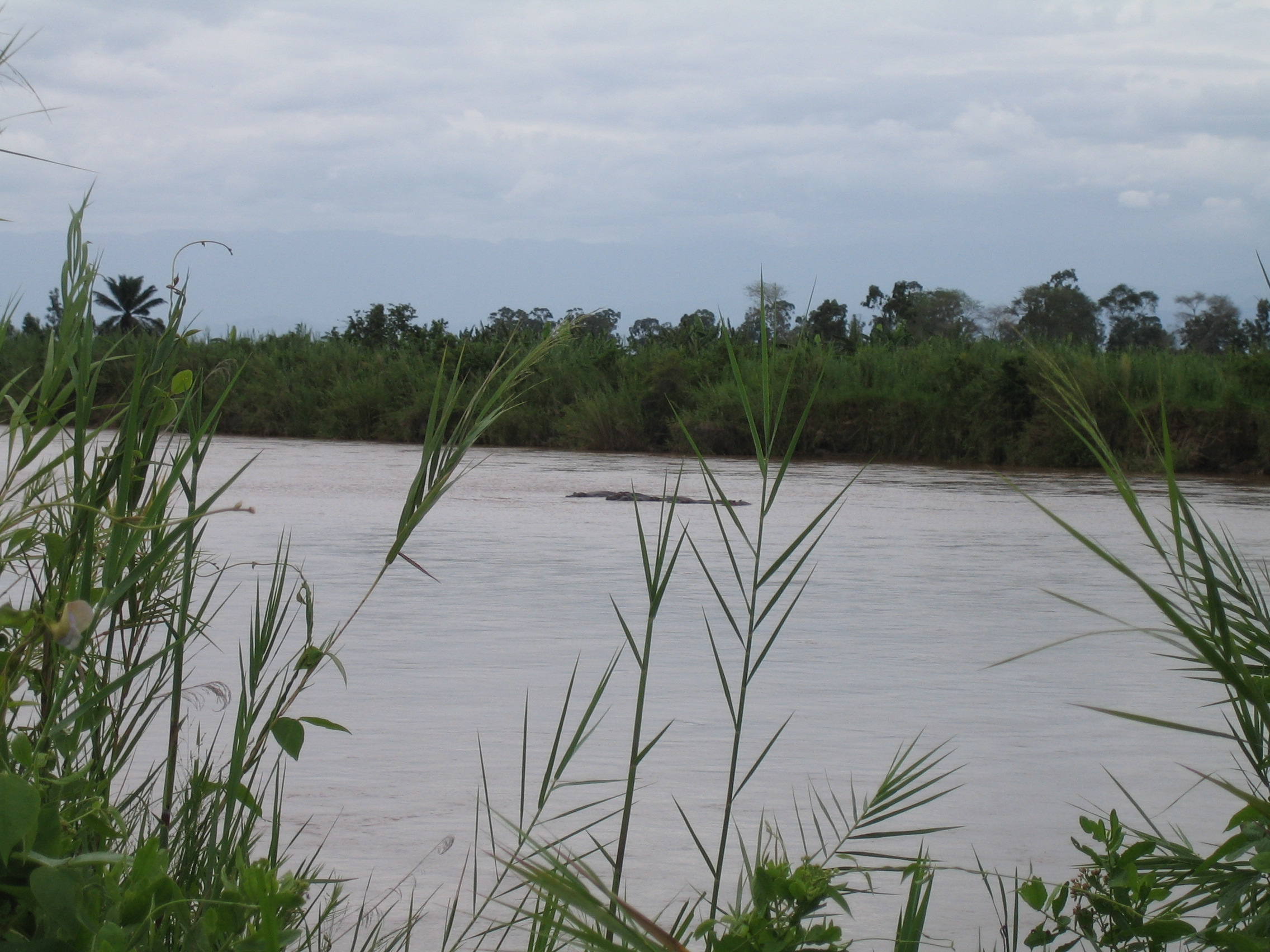 The Rusizi river in Burundi Taken by SteveRwanda